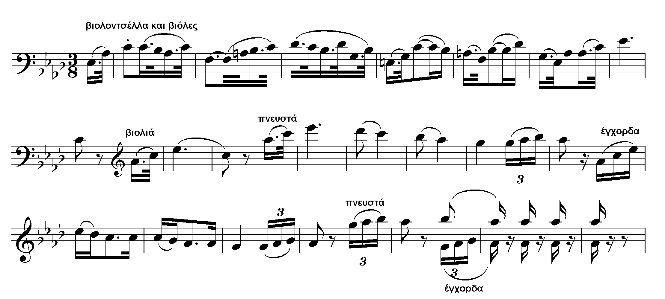 Beethoven, Symphony No. 5